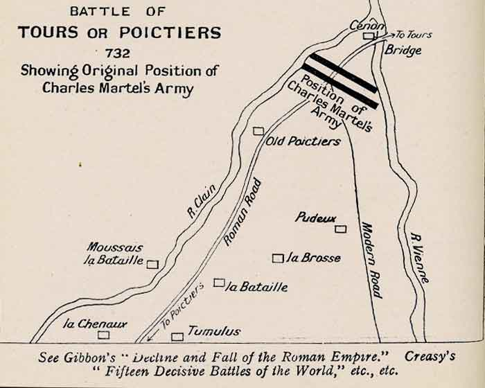 Map with the position of Charles Martel's Army at Tours (Poitiers) in 732.